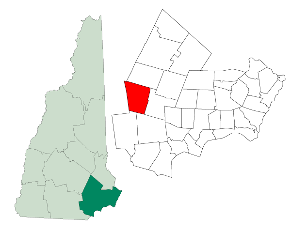 Map of a municipality in Rockingham County, New Hampshire